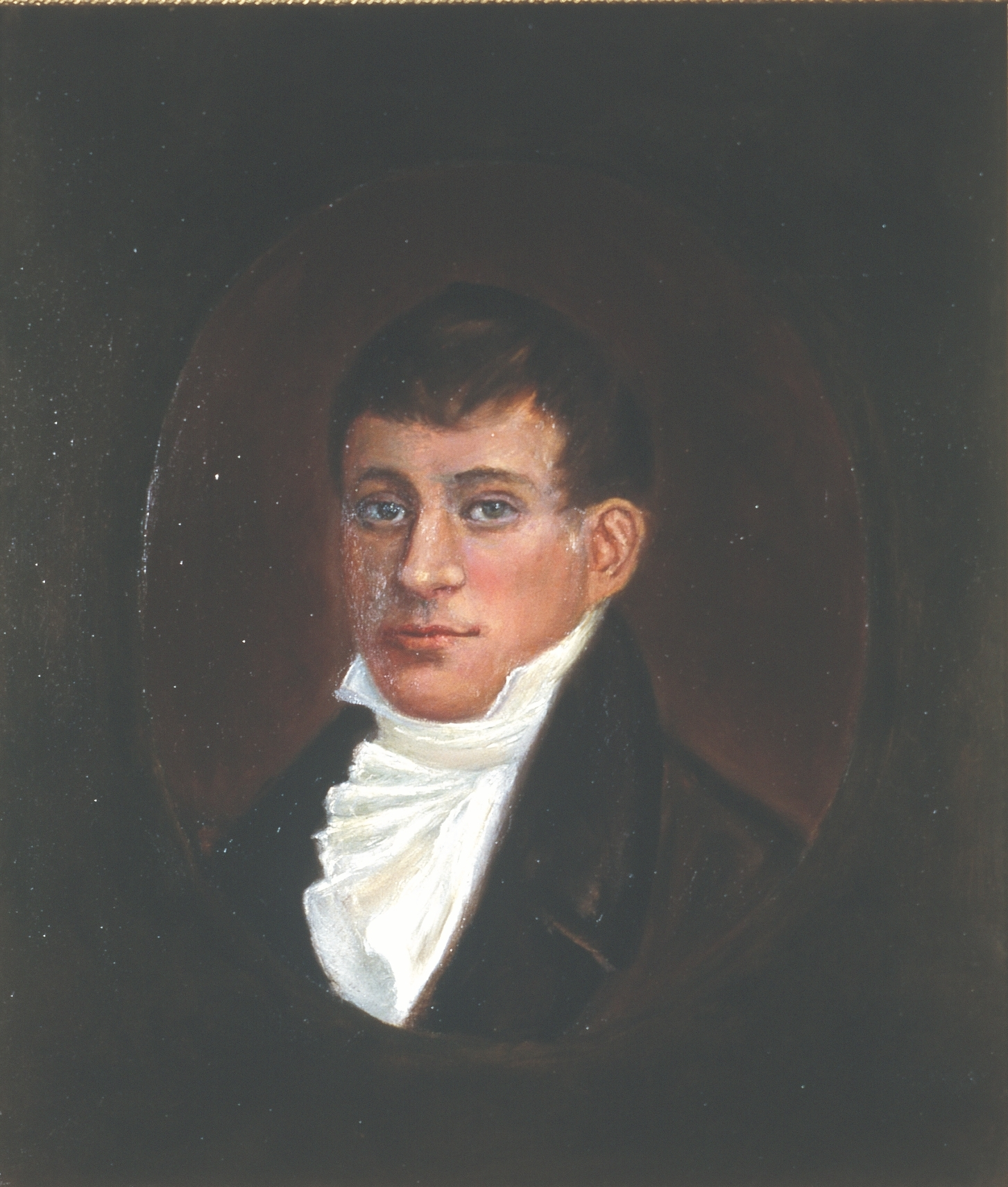 Copy after unknown painting.